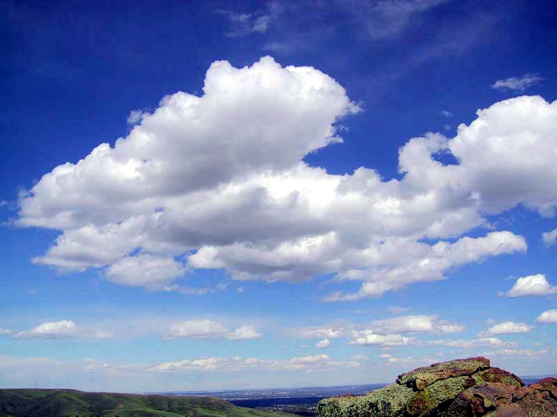 Cumulus clouds in fair weather. Photograph taken by Michael Jastremski.